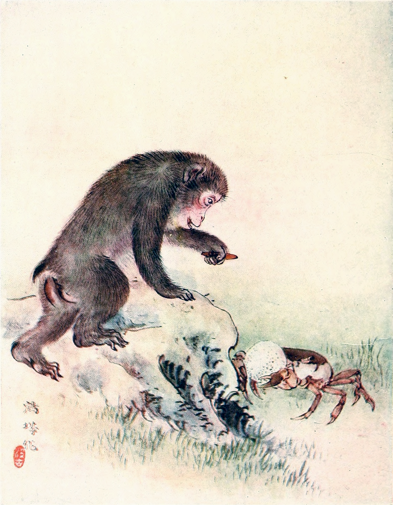 Image from The Japanese Fairy Book